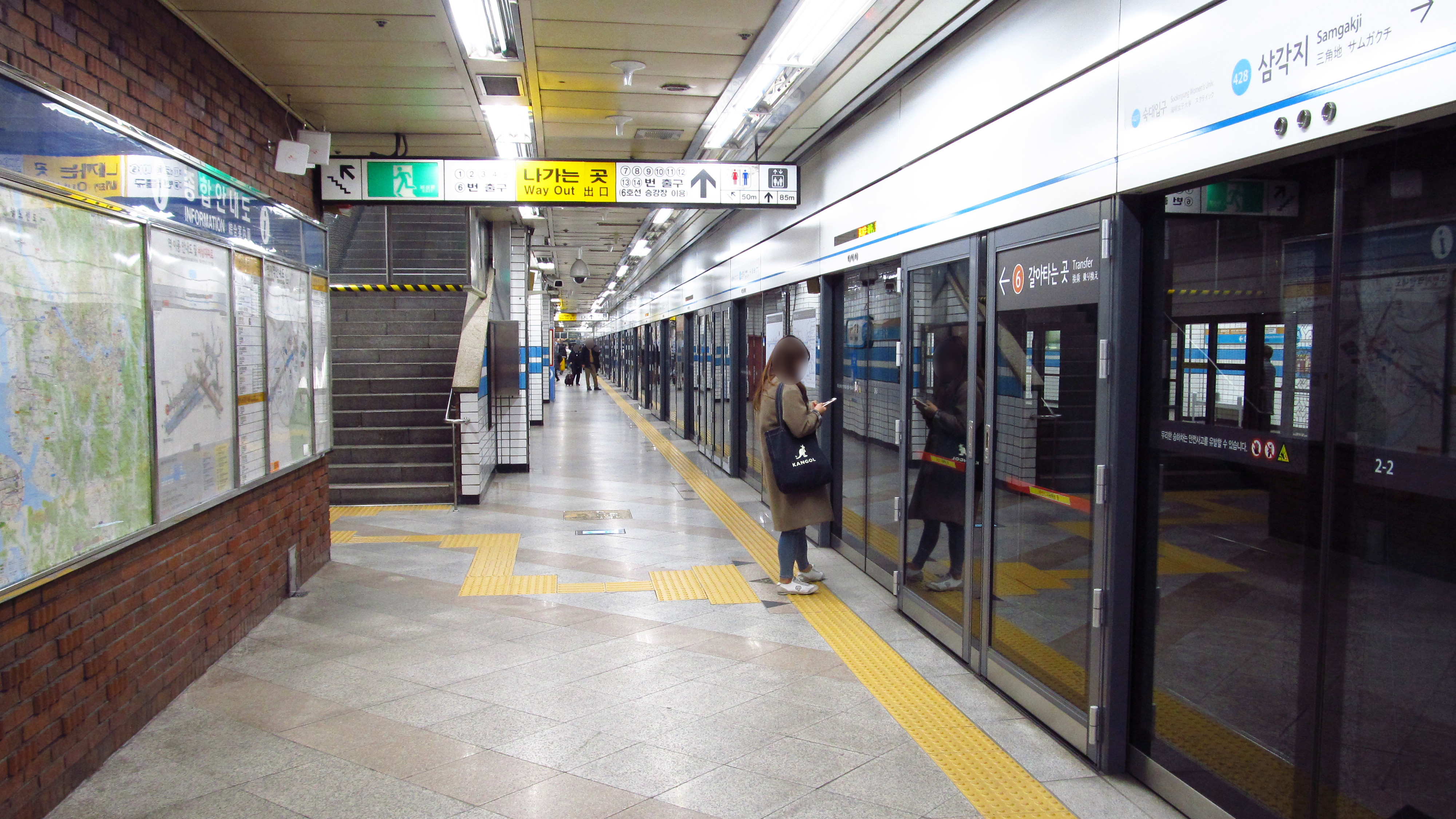 The platform at Samgakji Station on Seoul Subway Line 4 in Yongsan-gu, Seoul, Republic of Korea(South Korea)